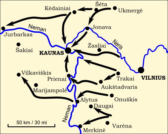 Soviet plans to encircle Kaunas during the Lithuanian-Soviet War (January-February 1919).